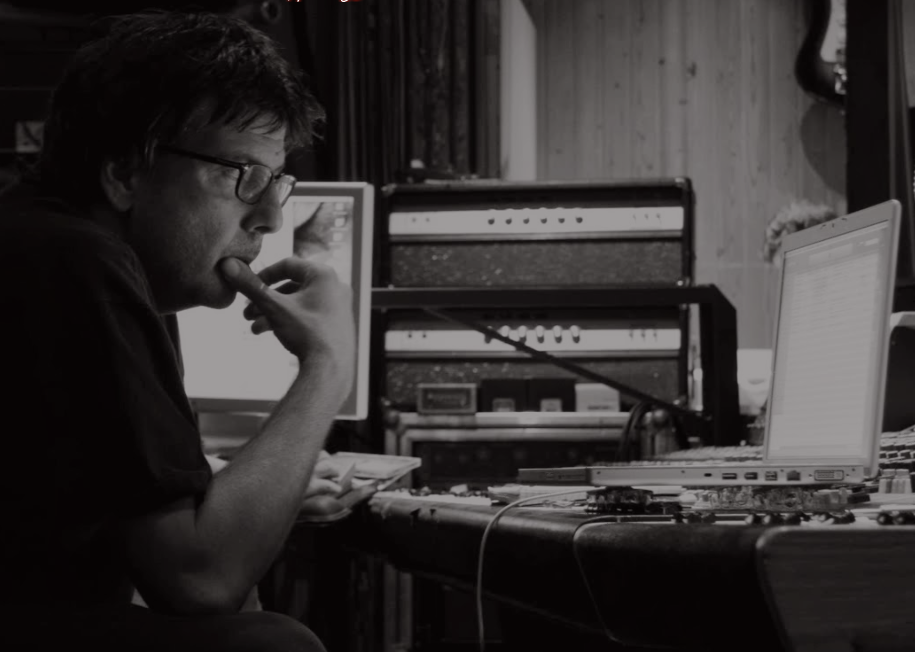 Howard Benson recording vocals at his studio in Calabasas in November 2017.